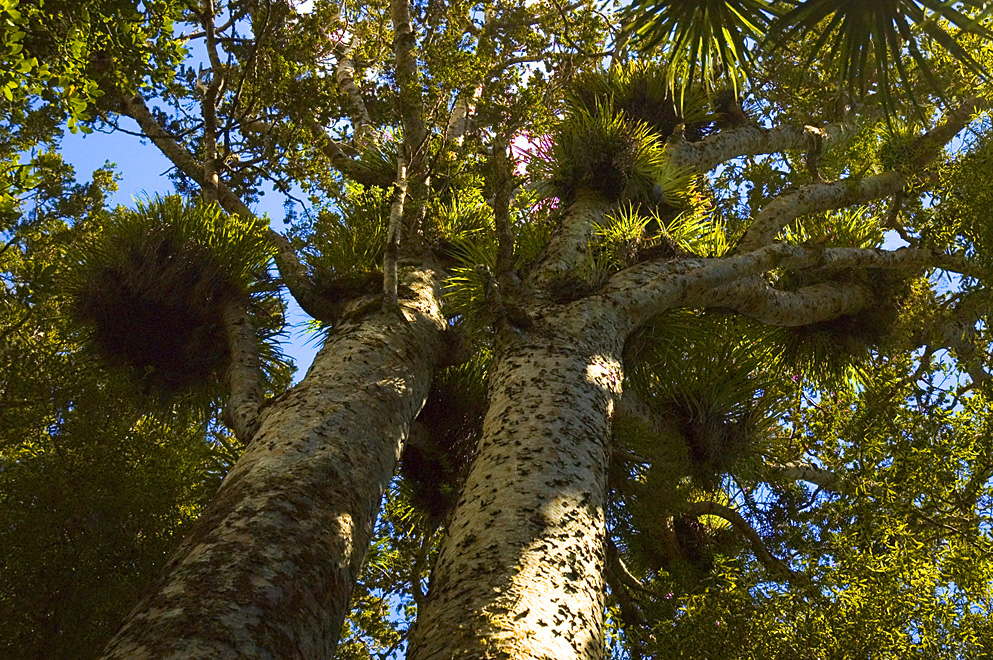 Crowns of two kauri trees (Agathis australis), Trounson Kauri Park, North Island, New Zealand. Also visible are the epiphytes, including Astelia spp., which are a common feature of the New Zealand rainforest.